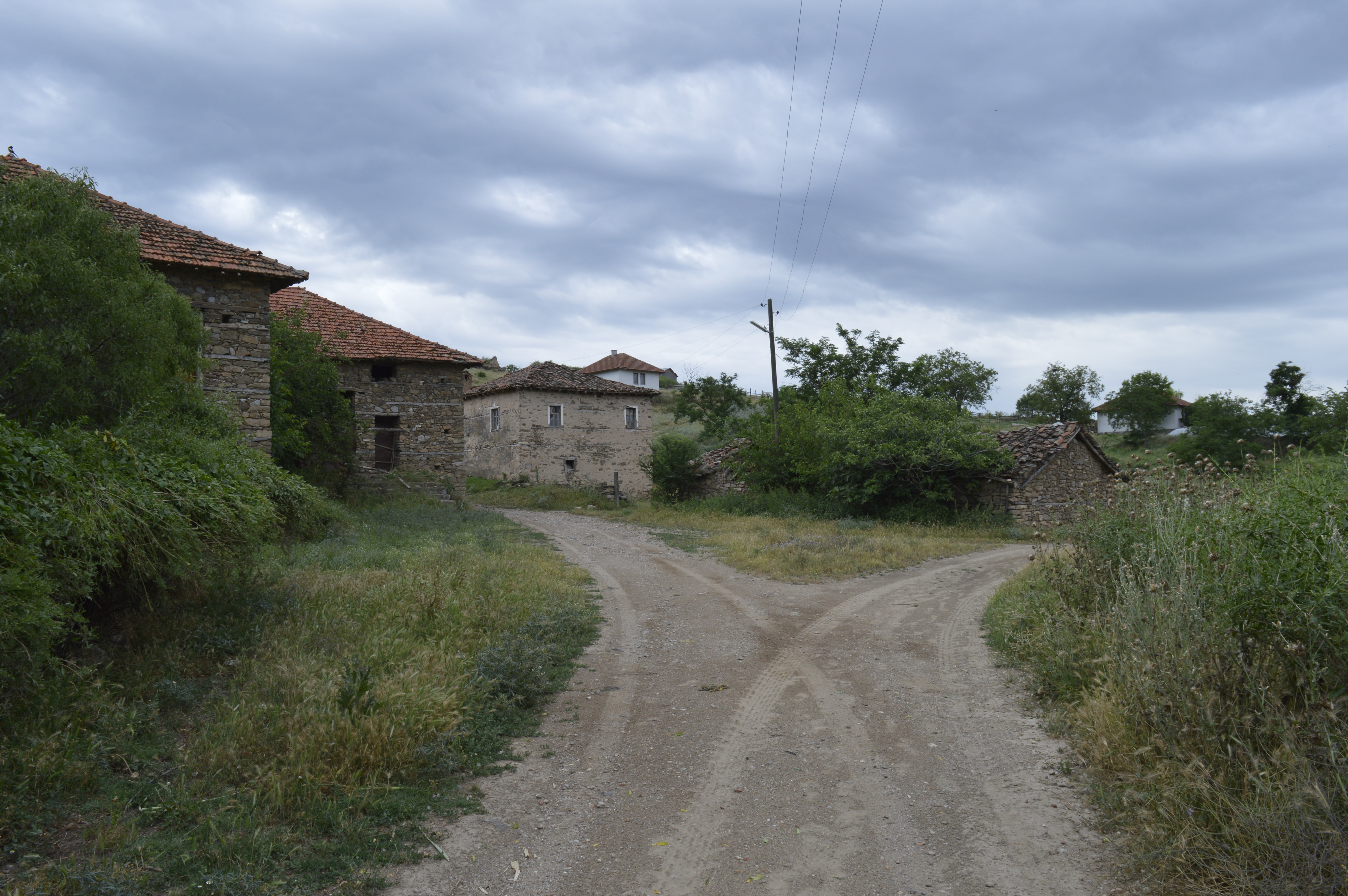 View of old houses in the village Dolno Vranovci